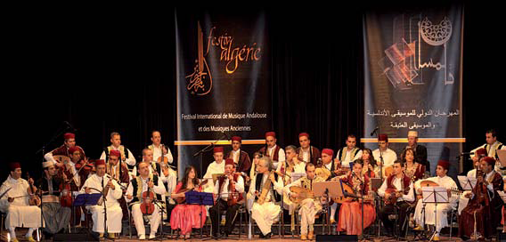 Andalusian orchestra Tlemcen-Algeria